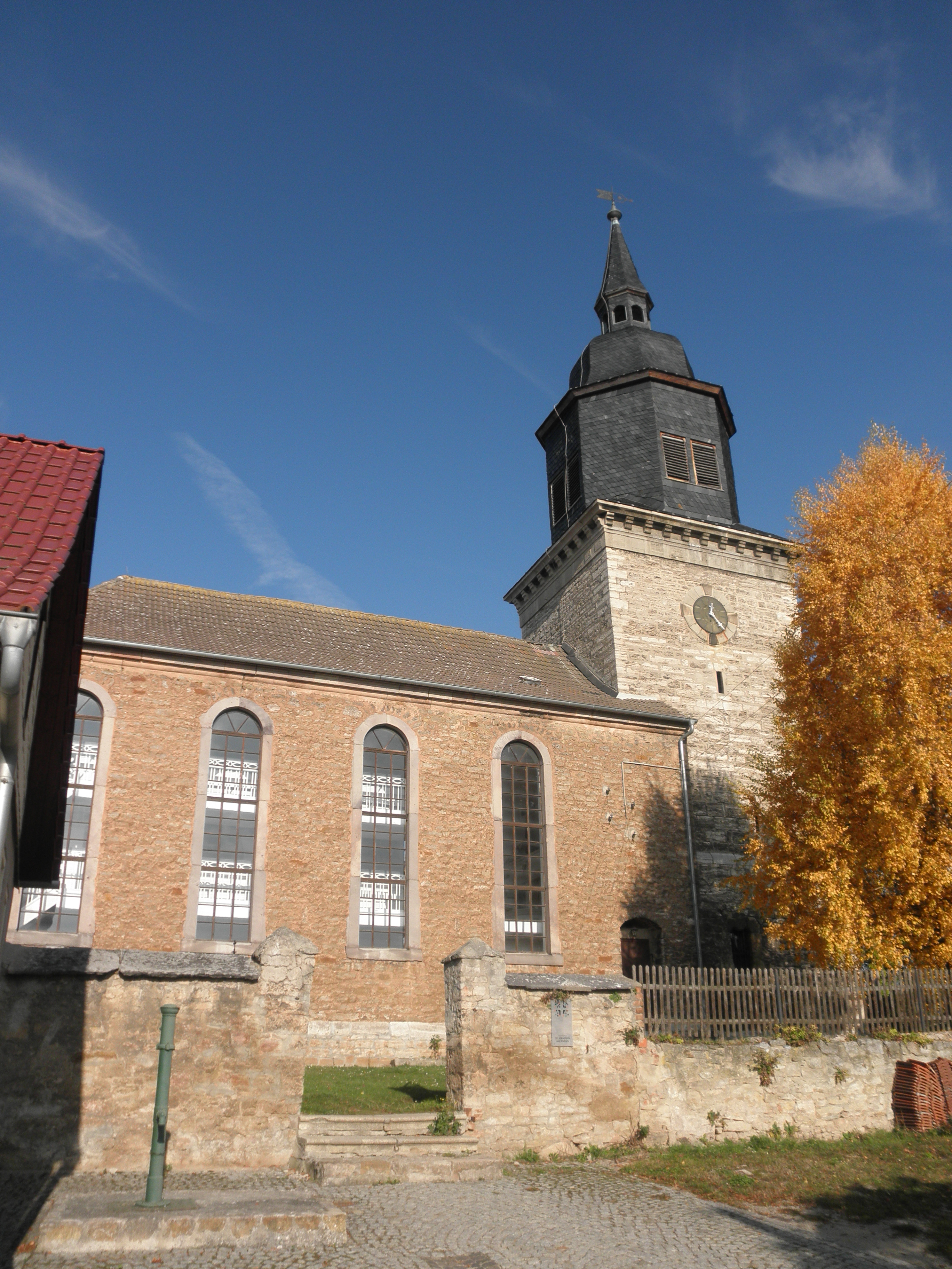 Church in Obertopfstedt in Thuringia